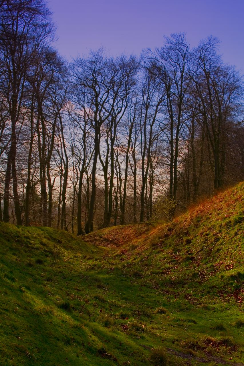 Atlas of Hillforts 3828 One of the outer "rings", or deep ditches that completely encircled the hill fort for protection. Made Explore: Highest position 247 on Mar 16, 2007.